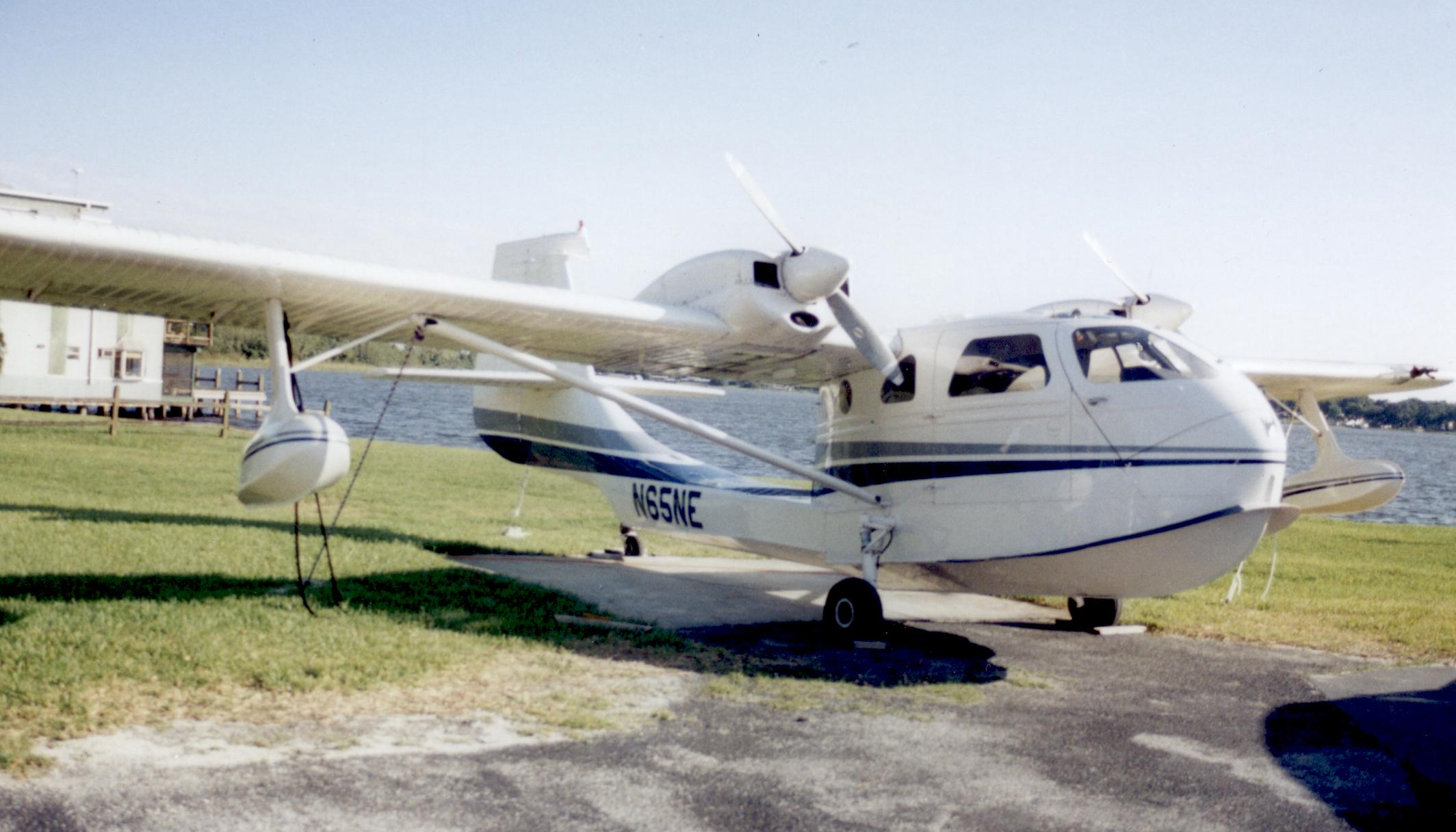 United Consultants UC-1 Twin Bee N65NE at Winter Haven seaplane base, Florida